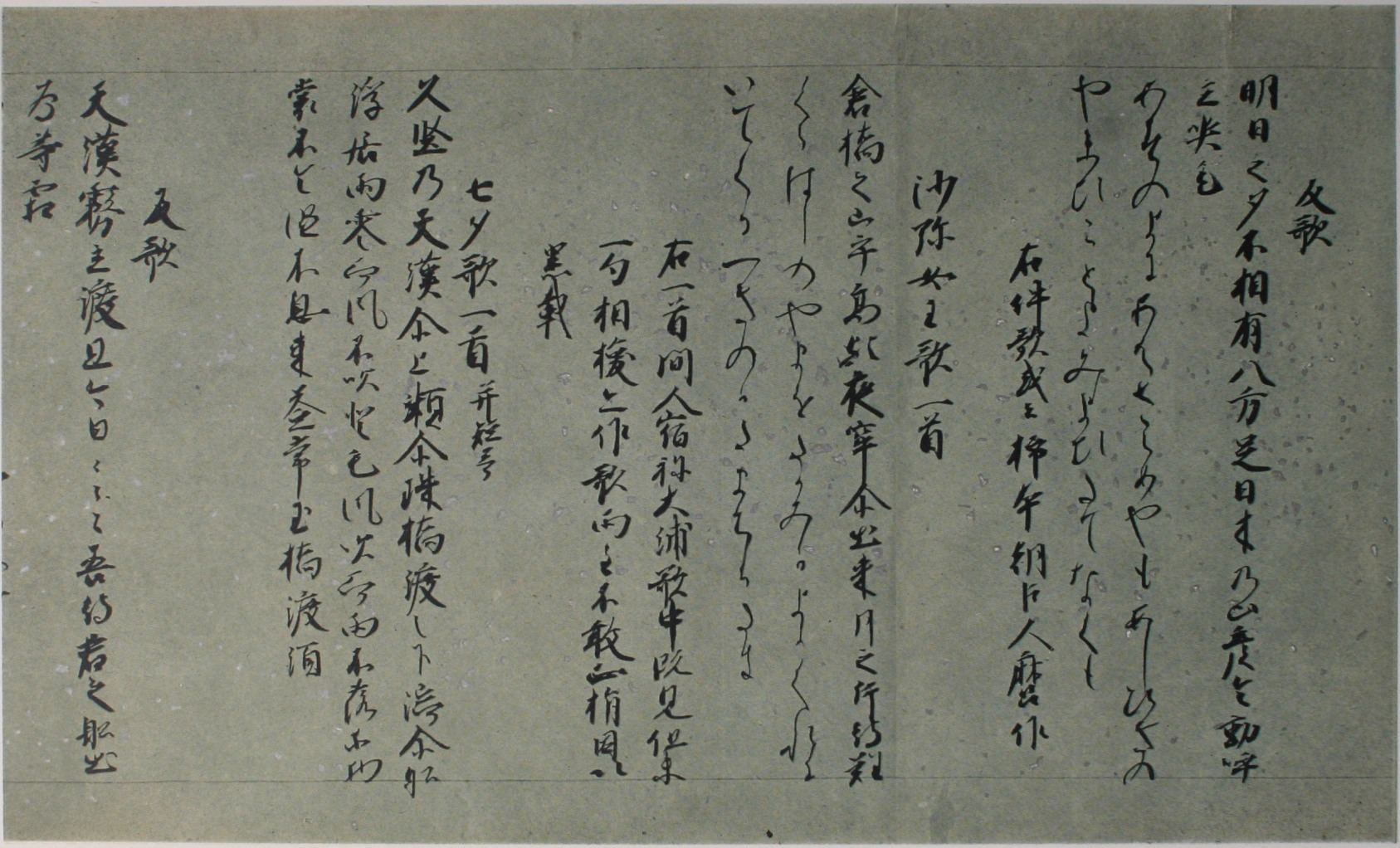 Detail of Collection of Ten Thousand Leaves (万葉集, Man'yōshū), Volume 9th , Aigami edition, Date before 1185, Kyoto National Museum, Kyoto,Japan